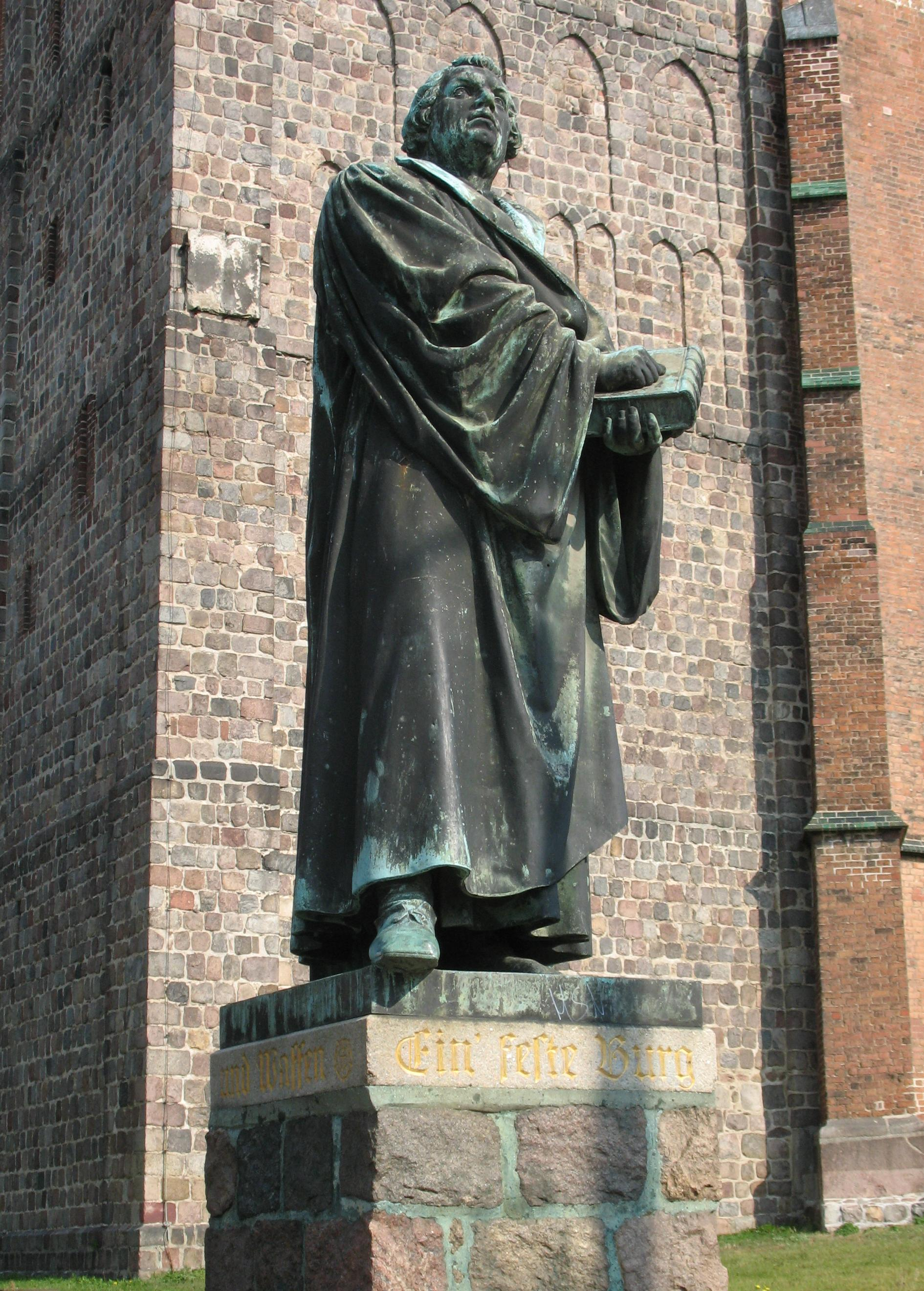 Statue of Martin Luther in Prenzlau in Brandenburg, Germany